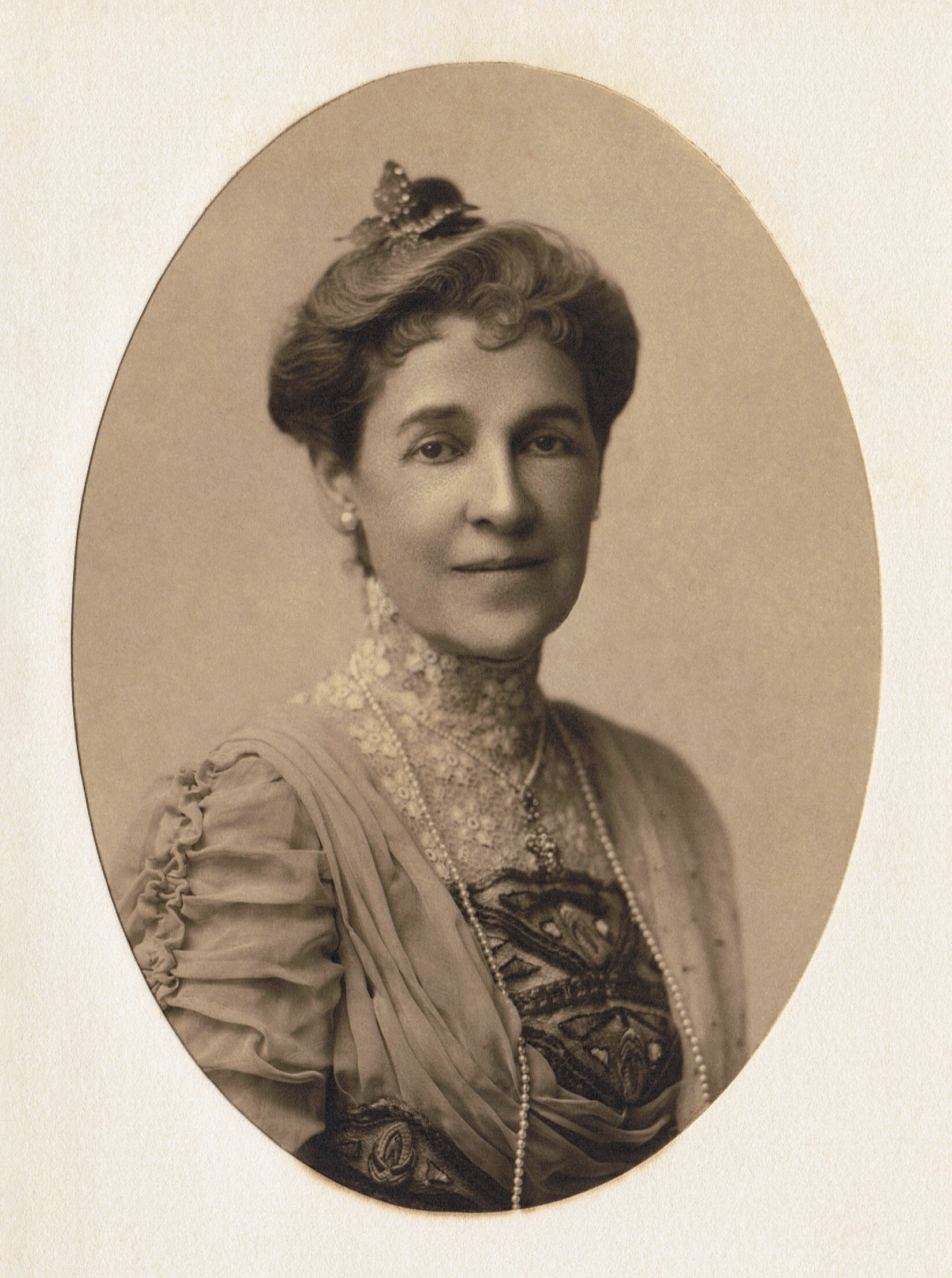 A platinum print photograph of Philadelphia poet Florence Earle Coates which was pasted into a copy of Mrs. Coates' The Unconquered Air, and Other Poems (1912).